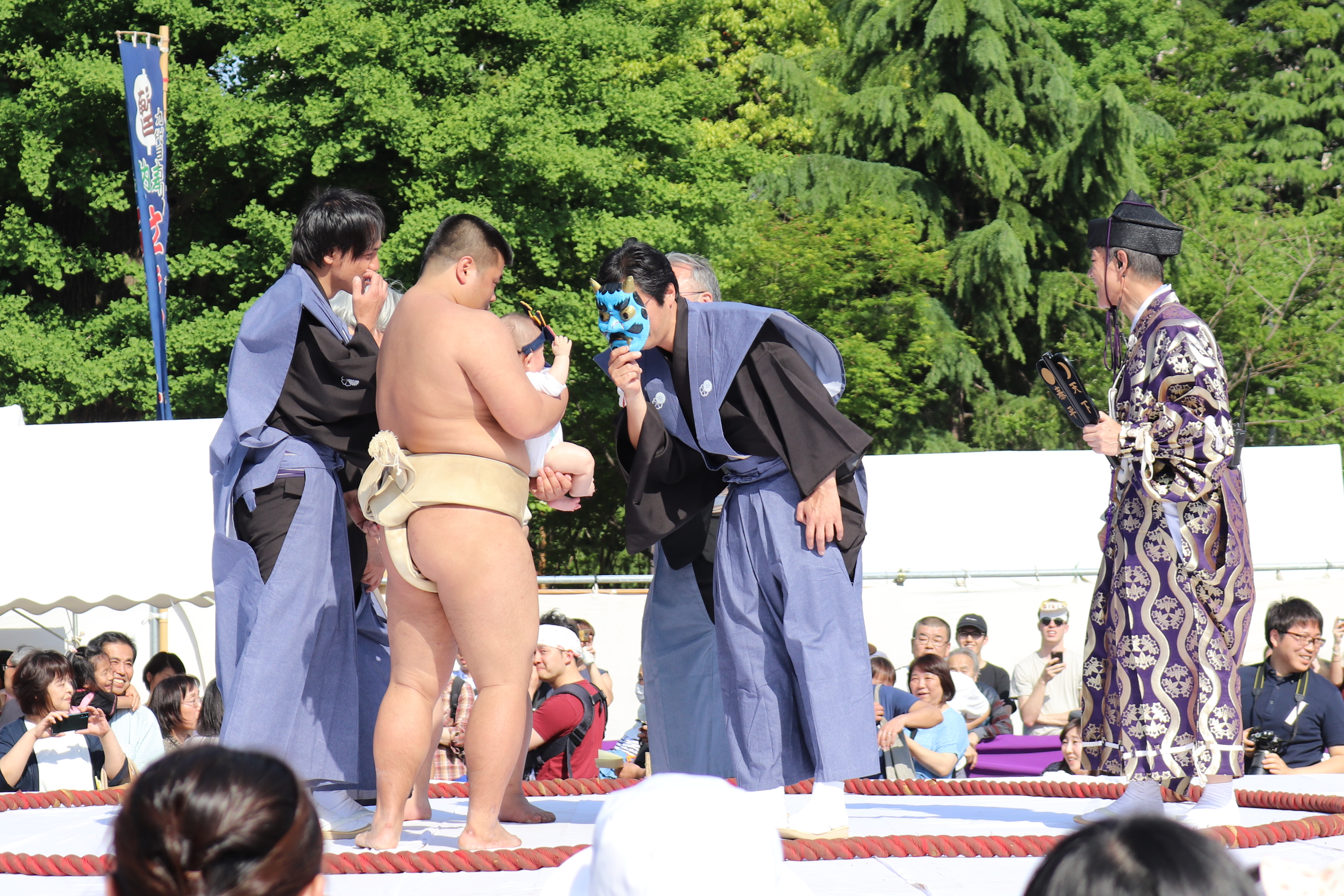 At the 2018 Naki Sumo Crying Baby Festival at Sensoji Temple, Asakusa, Tokyo. Referees wear masks in the hopes of bringing the infants to cry.